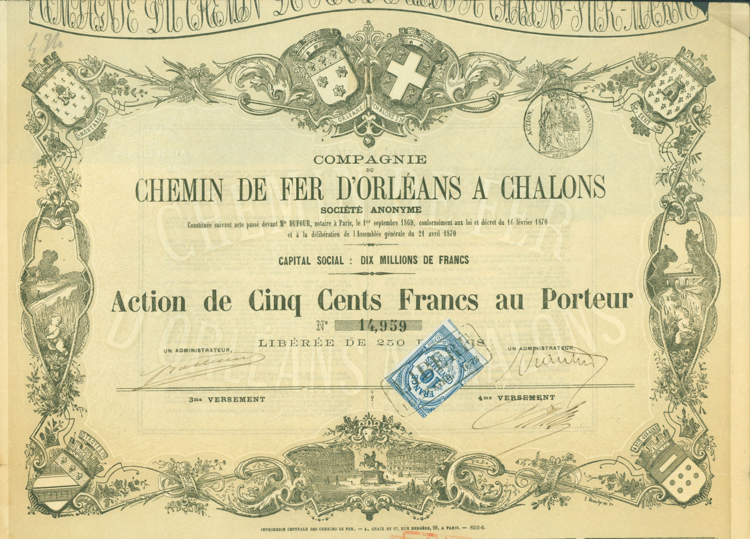 Share of the Compagnie du Chemin de Fer d'Orléans a Chalons S.A., issued 21. April 1870